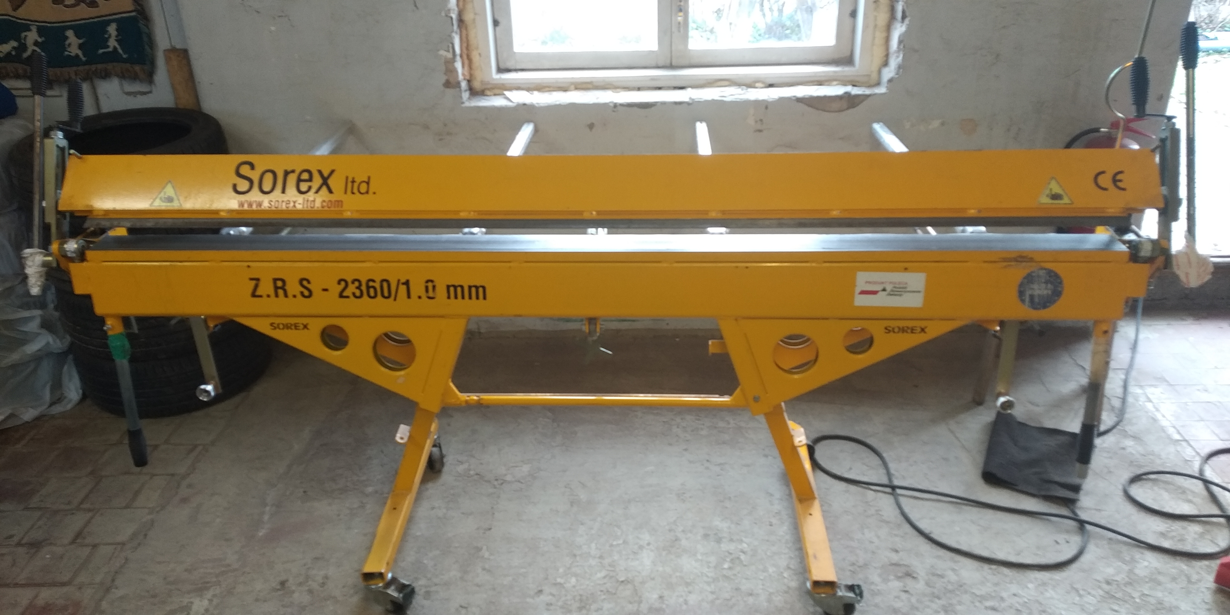 Metal sheet folding machine